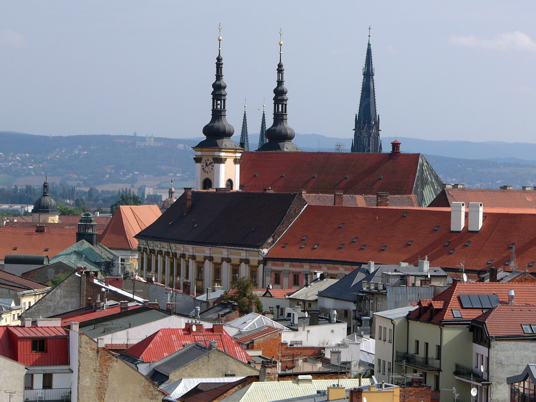 Churches in Olomouc (Czech Republic).